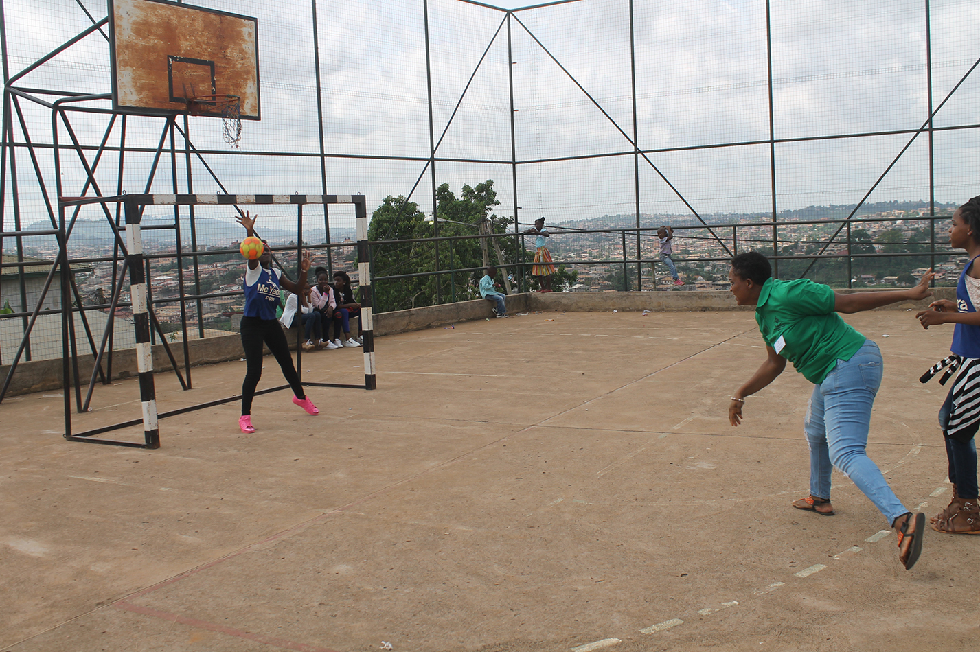 This is an image with the theme "Play" from: Cameroon